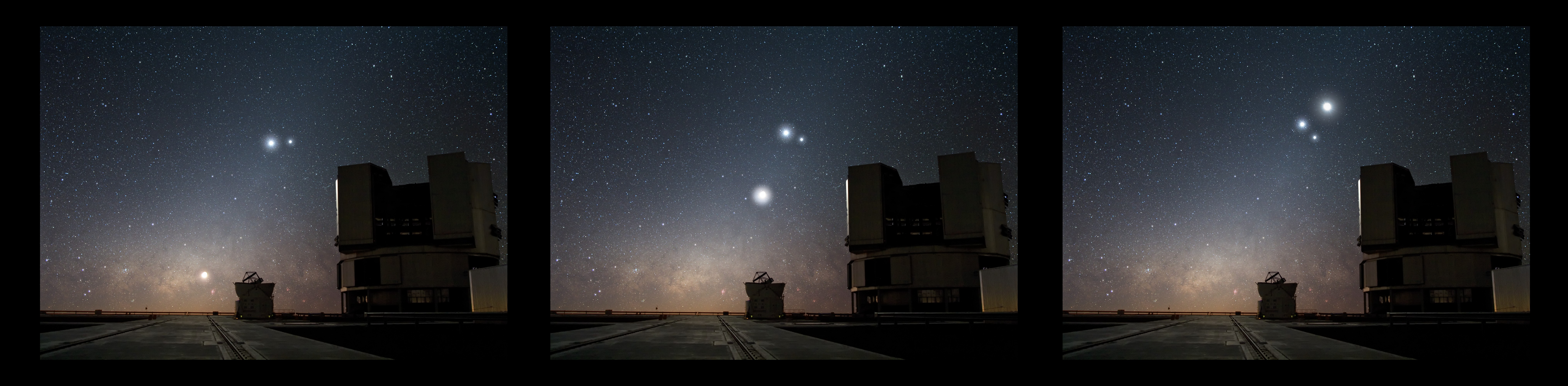 This dramatic triptych shows the Moon rise from left to right through the night sky over ESO’s Very Large Telescope (VLT) observatory at Paranal in northern Chile. Already aloft in the heavens and glowing in the centre of the image is Venus, Earth’s closest planetary neighbour. Shining to Venus’s right, the giant, though more distant planet, Jupiter appears as a small orb that seems to rotate around Venus as time passes. Such apparent celestial near misses — although the heavenly bodies are actually tens to hundreds of millions of kilometres apart — are called conjunctions. Still other sights delight in the sky over Paranal. The radiant, reddish plane of the Milky Way smoulders on the horizon, with massive bands of dust giving this bright region a mottled complexion. On the ground, an 8.2-metre VLT Unit Telescope on the right and a 1.8-metre Auxiliary Telescope to the left silently witness the splendour above, while probing the sky to address some of astronomy’s remaining mysteries.